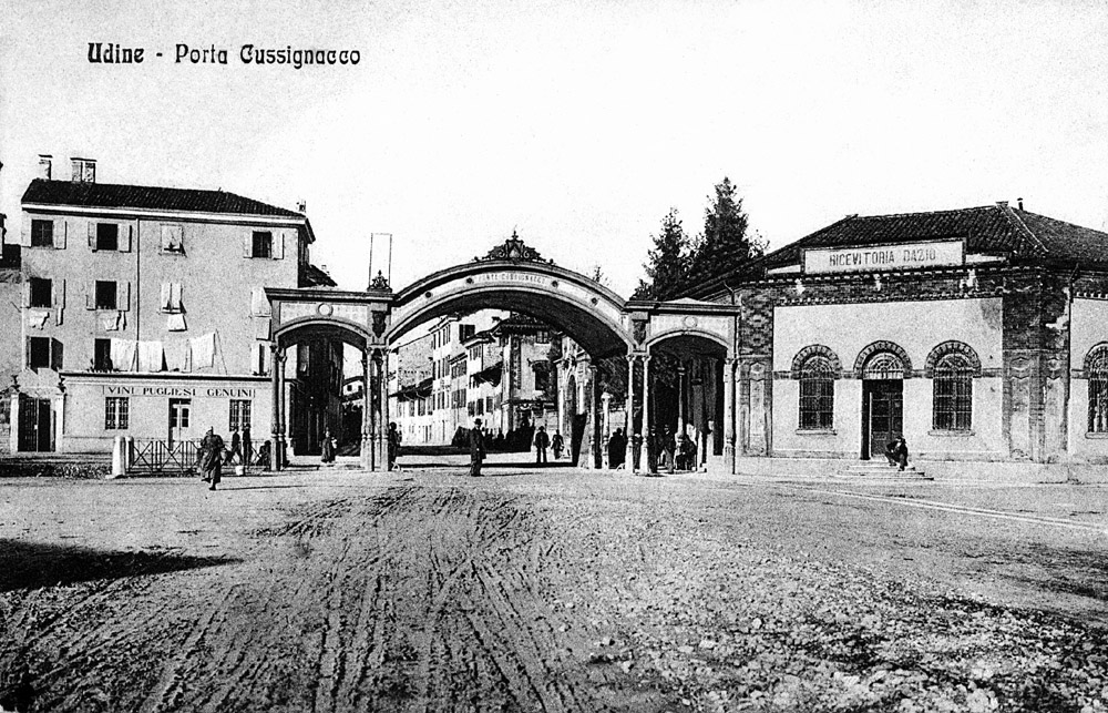 Porta Cussignacco